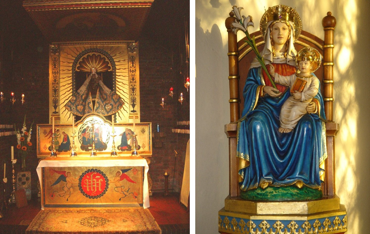 Walsingham, statues of Virgin Mary at (1) Walsingham shrine (Anglican), (2) Slipper Chapel (Roman Catholic)